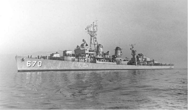 The U.S. Navy destroyer USS Dortch (DD-670) in the Mediterranean Sea, in 1957.